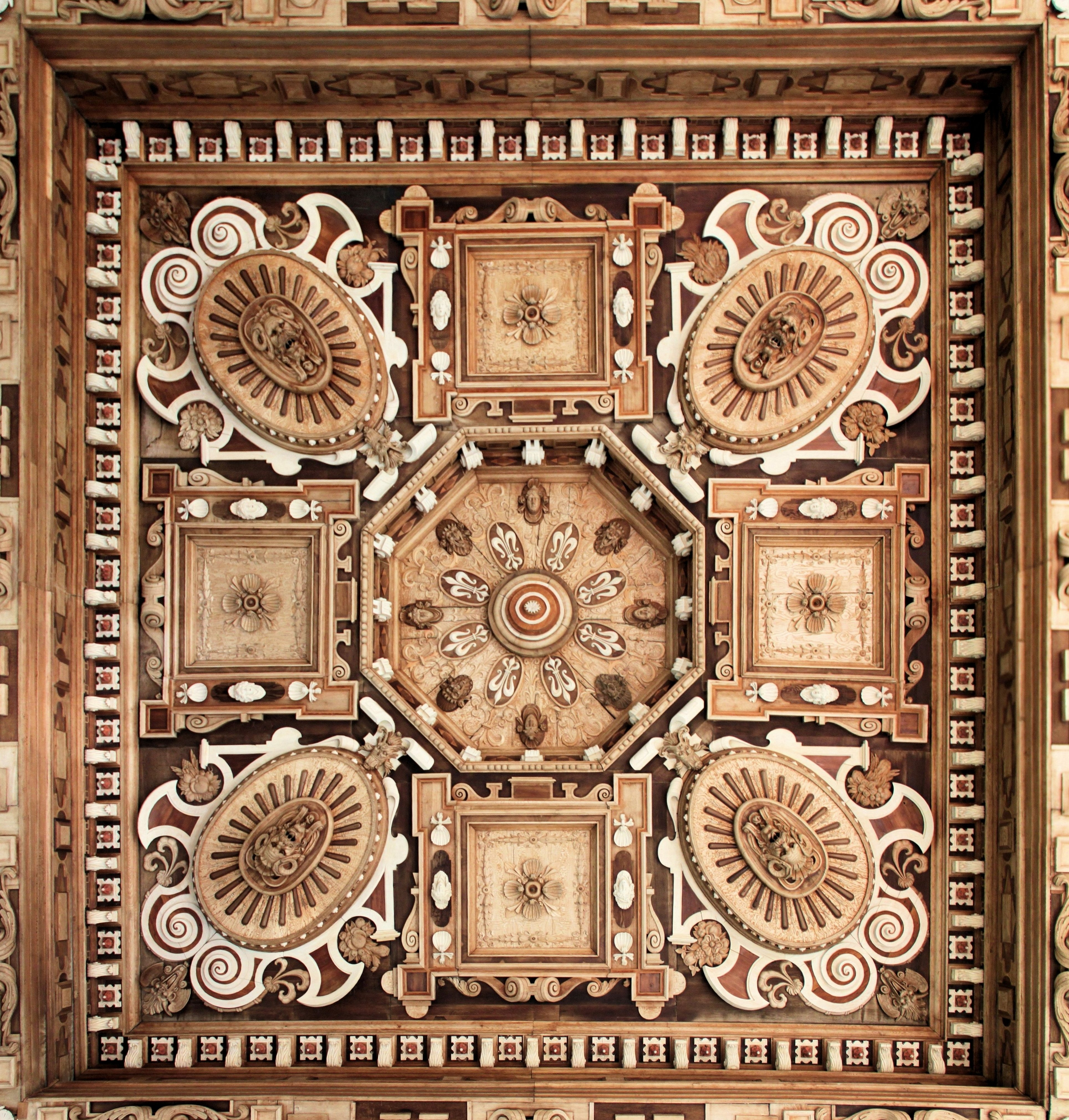 Coffered ceiling (detail) in the Zedernsaal (Cedar Hall) of the Fugger Castle, Kirchheim in Schwaben.